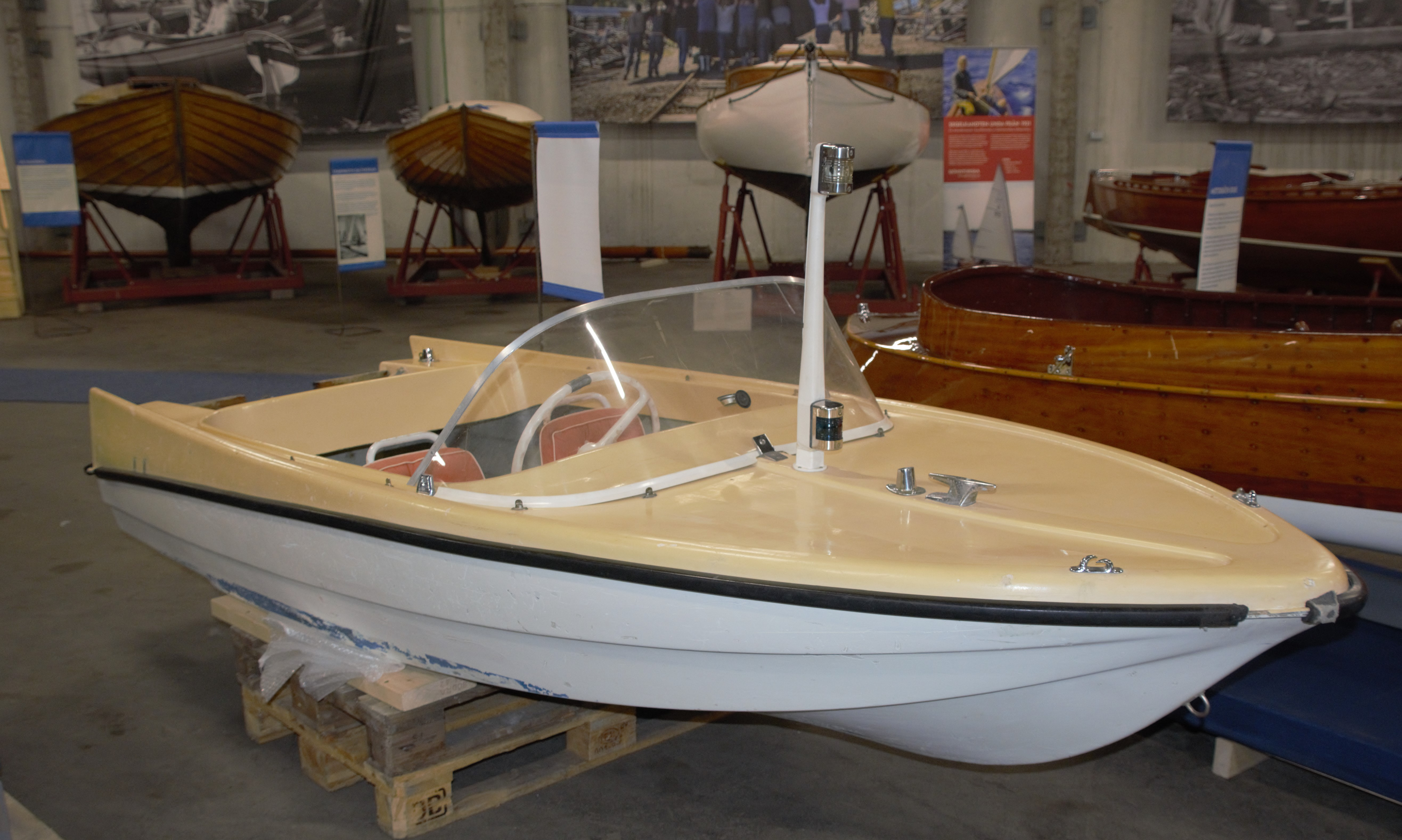 Pleasure craftt type Flygfisken from Malmö Flygindustri, from around 1960. Designed by Olle Enderlein,.3.55 meter long, 1.40 meter wide. Powered by a 45 hp engine.